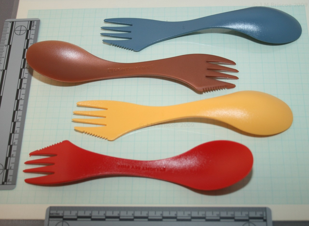 Spork, branded as "Light My Fire"